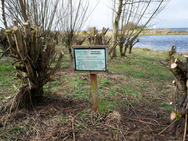 Woodland Management at Oxford Island 1. The willow trees in this area have been coppiced. The stems of the willow will regrow and produce new shoots in the coming months. Coppicing of willow took place in many areas around Lough Neagh in the past and the new shoots produced in the following years were used for basket making. Wood removed from coppiced woodlands was also used for fire wood and on a larger scale for making charcoal. See 1004380